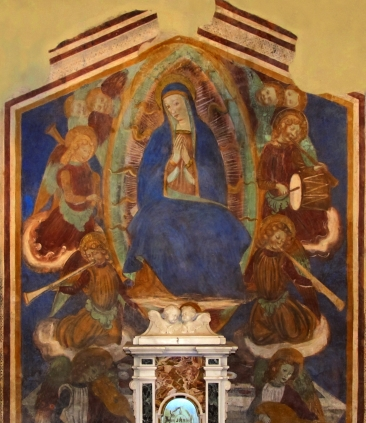 Elba island